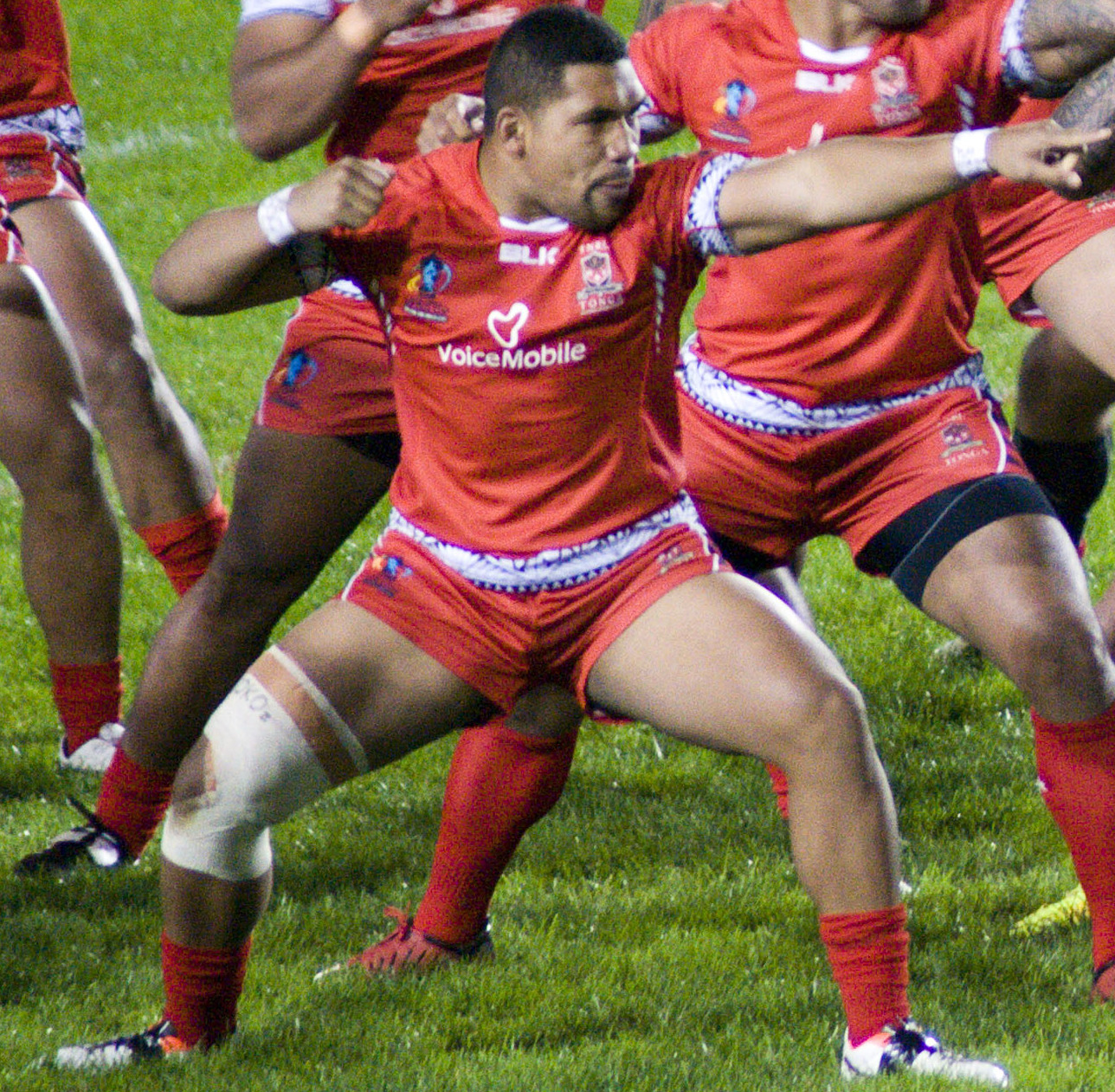 2013 Rugby League World Cup match between Tonga and Scotland at Derwent Park in Workington.